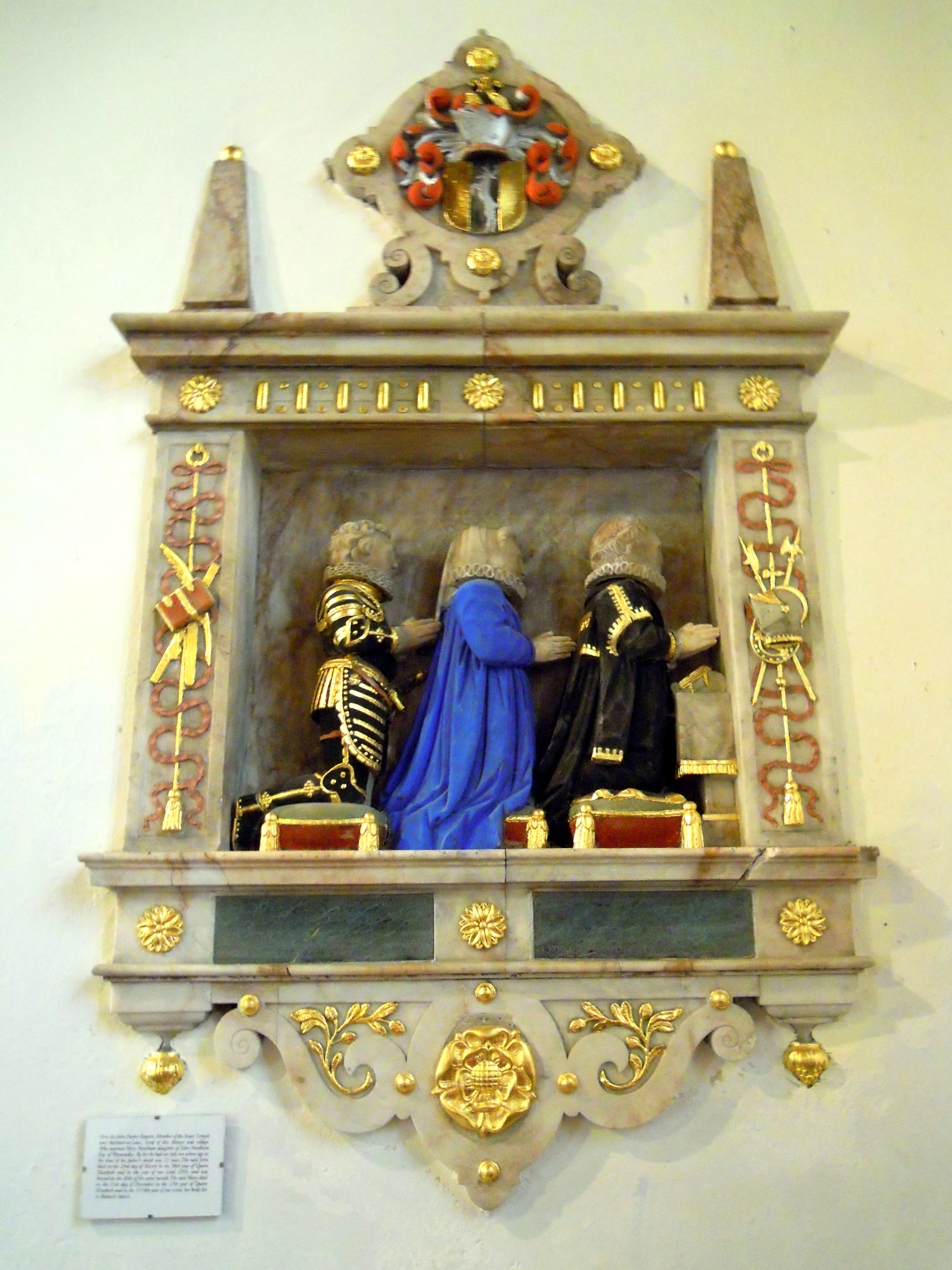 The effigy tomb of John Parker (died 1595) at Church of All Saints, Radwell